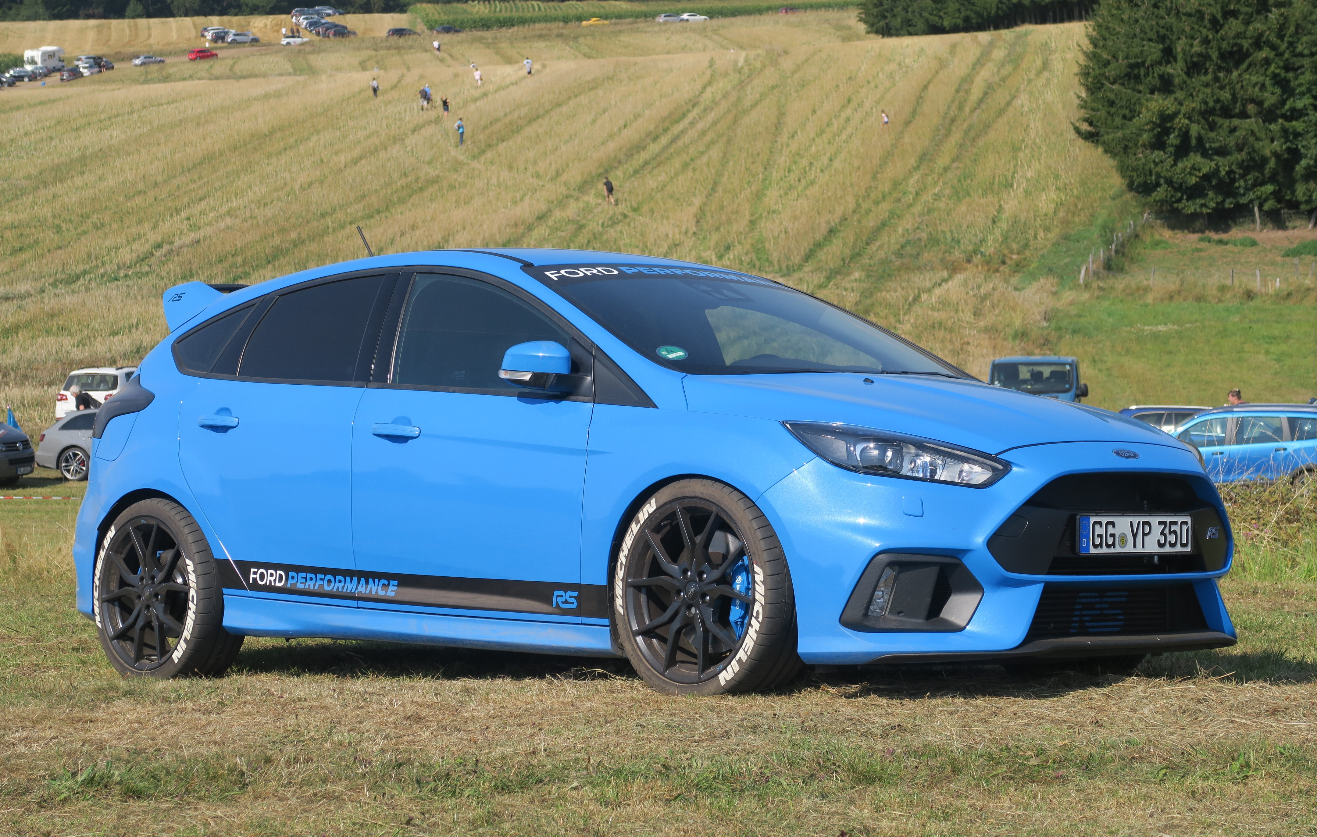 Ford Focus RS Mk III on a hilside near Sankt Wendel License plate has been changed for anonymisation purposes